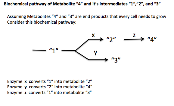 sample biochemical / biosynthetic pathway for example mentioned in Auxotrophy page